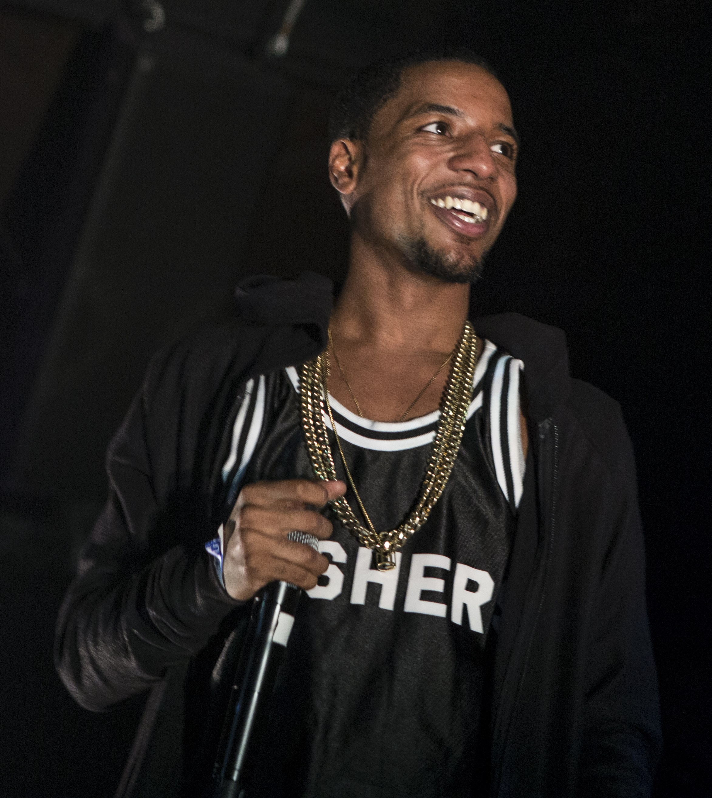 Image of American rapper Rockie Fresh in January 2014, slightly cropped from original.